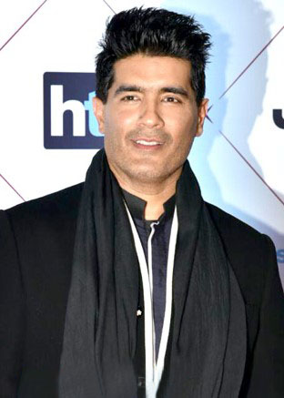 Manish Malhotra graces the HT Style Awards 2018.